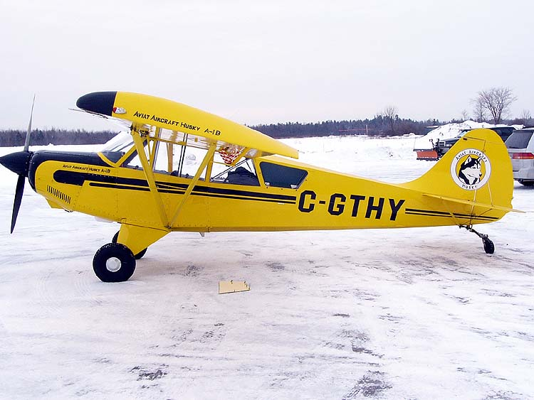 I took this photo at Carp Airport Ontario, 06 January 2006